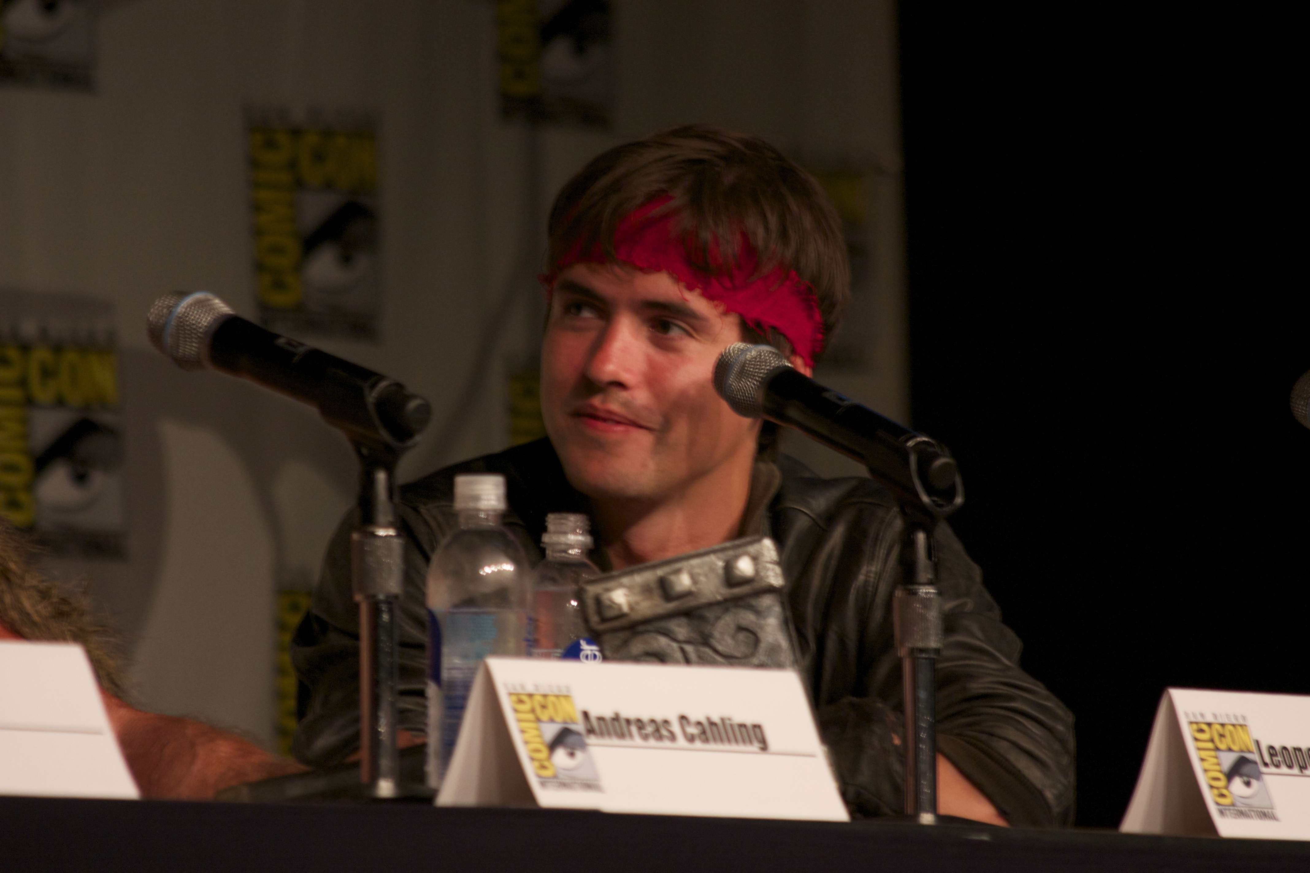 David Sandberg, director and lead actor in the film Kung Fury, at a panel about the film at the 2015 Comic-Con International in San Diego.